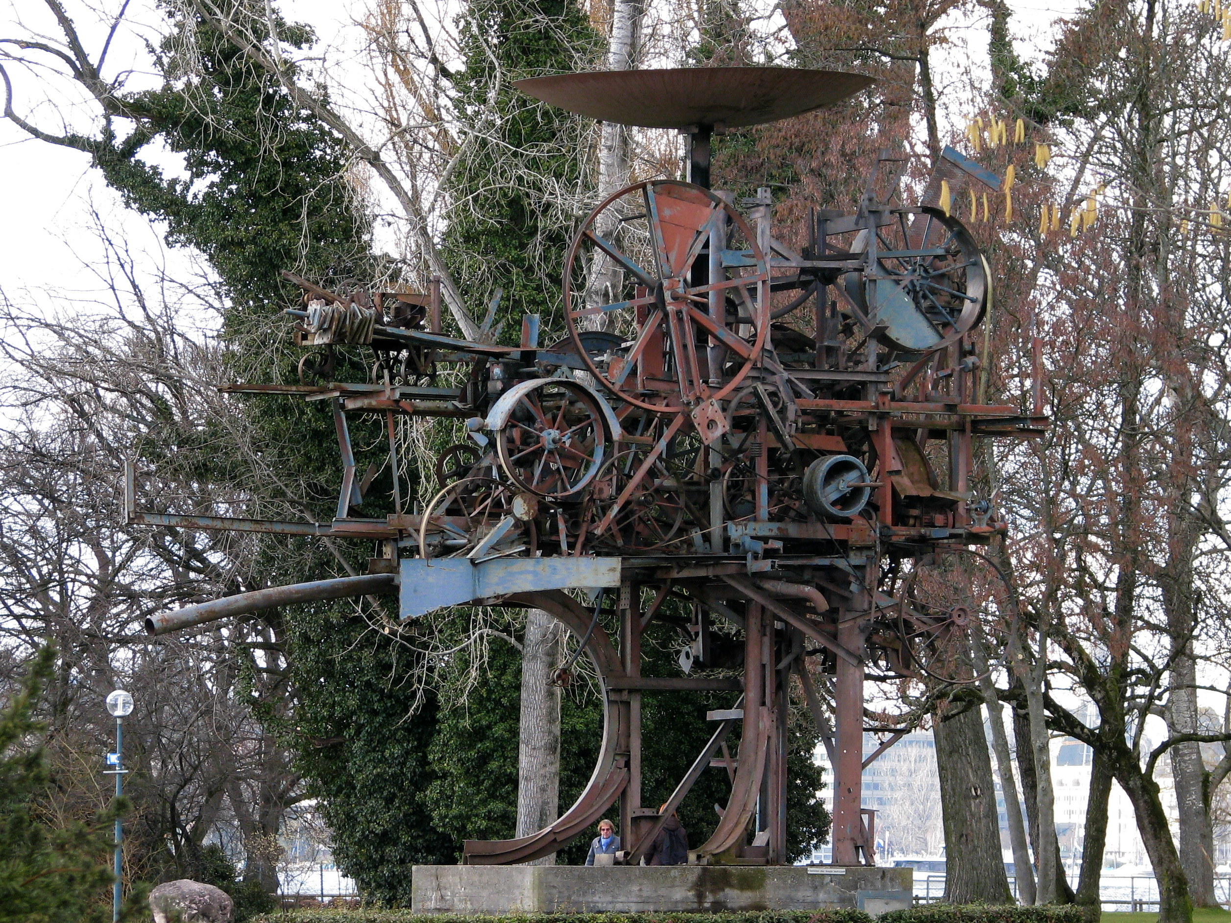 Zürich-Seefeld : Heureka sculpture by Jean Tinguely.